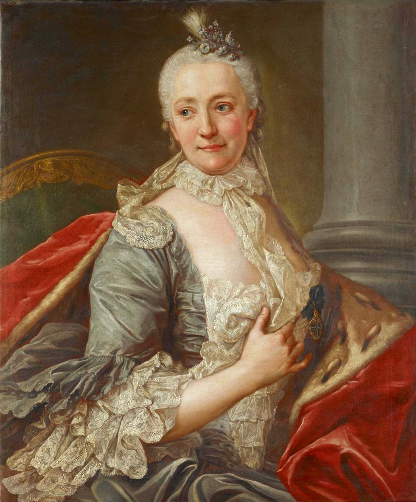 Portrait of Barbara Urszula Sanguszkowa (1718-1791)